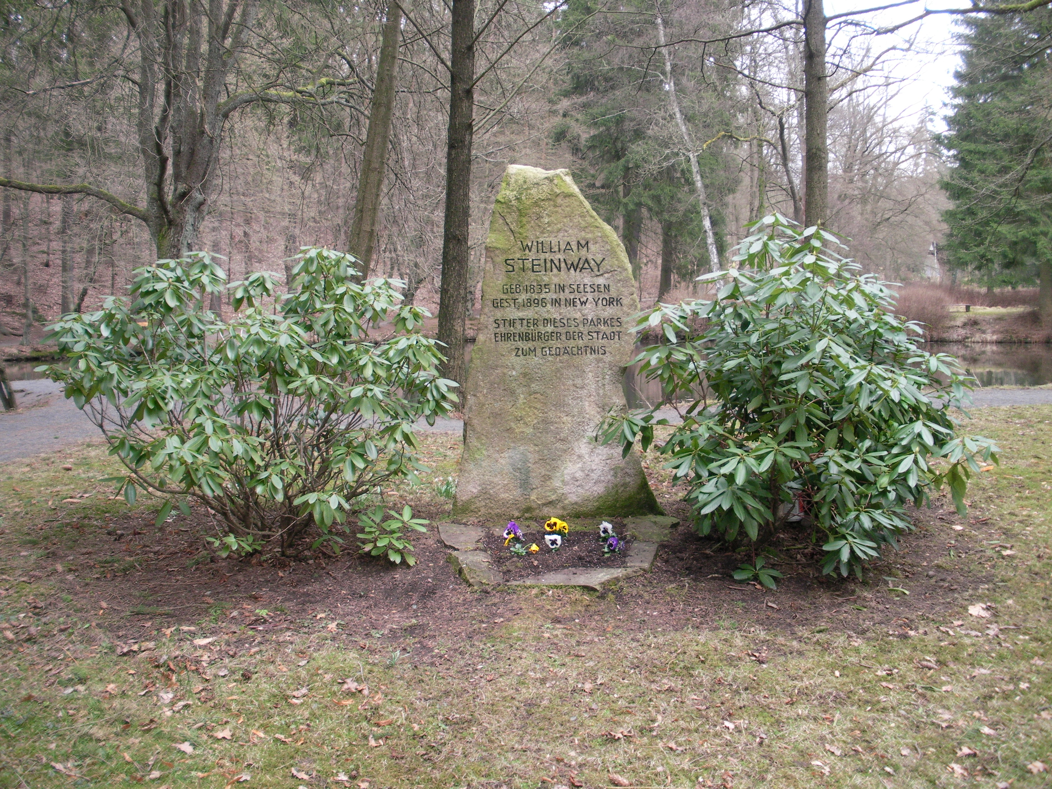 Memorial for William Steinway in Steinway-Kurpark (Steinway Park), Seesen, Germany.